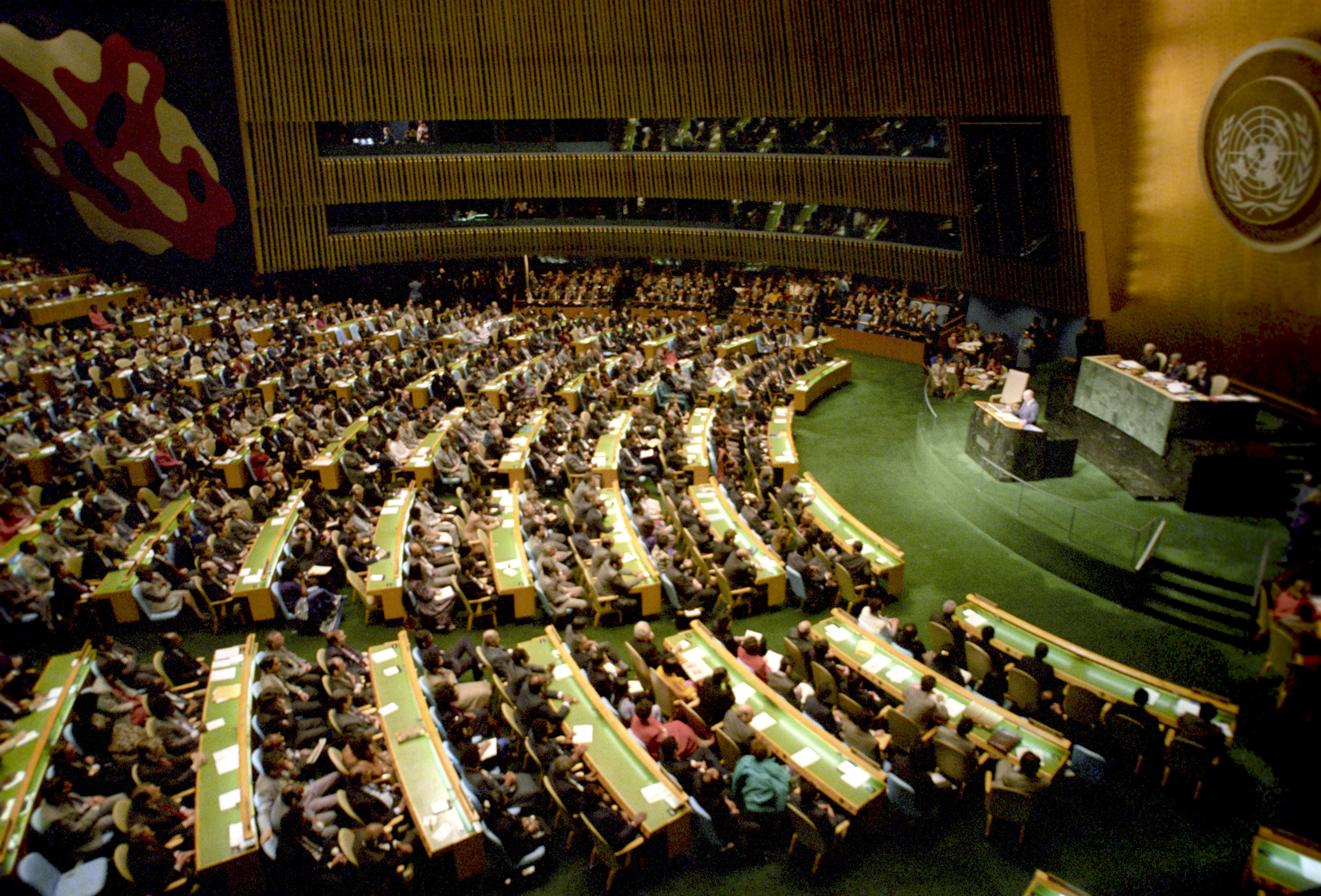 “Mikhail Gorbachev addressing UN General Assembly session”. December 1988. Mikhail Gorbachev, General Secretary of the Soviet Communist Party's Central Committee and Chairman of the Presidium of the USSR Supreme Soviet [Parliament], addressing a UN General Assembly session during his official visit to the United States. The mural rear left is by Fernand Léger.